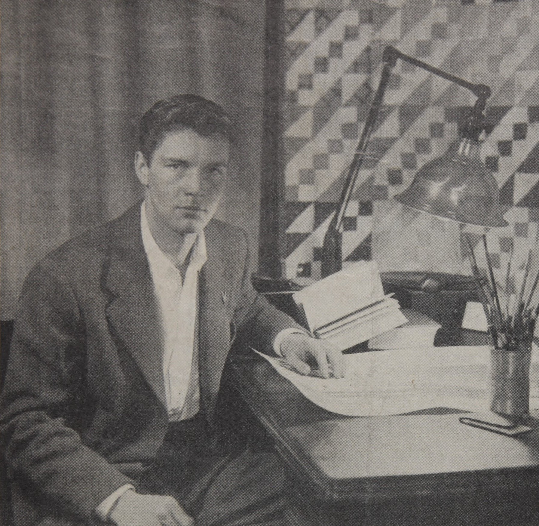 [Dartmouth Alumni Magazine article] by William H. Miller Jr 2